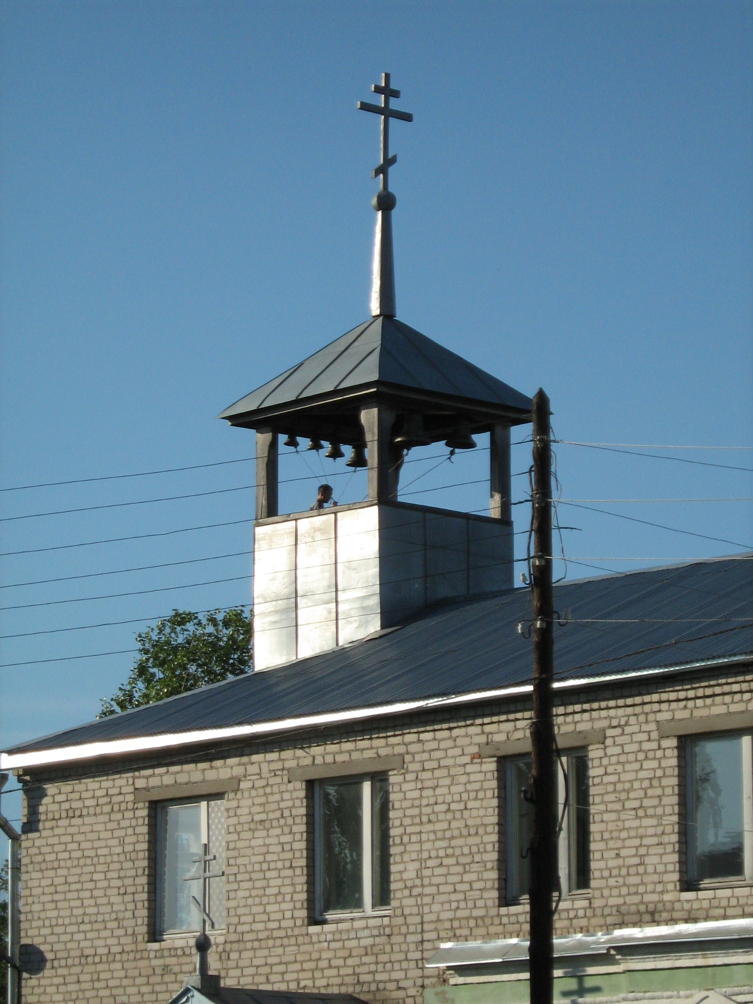 The belltower of the Church of Our Lady of Kazan in the Old Kstovo. Originally built in 1880s, re-consecrated in the 1990s.